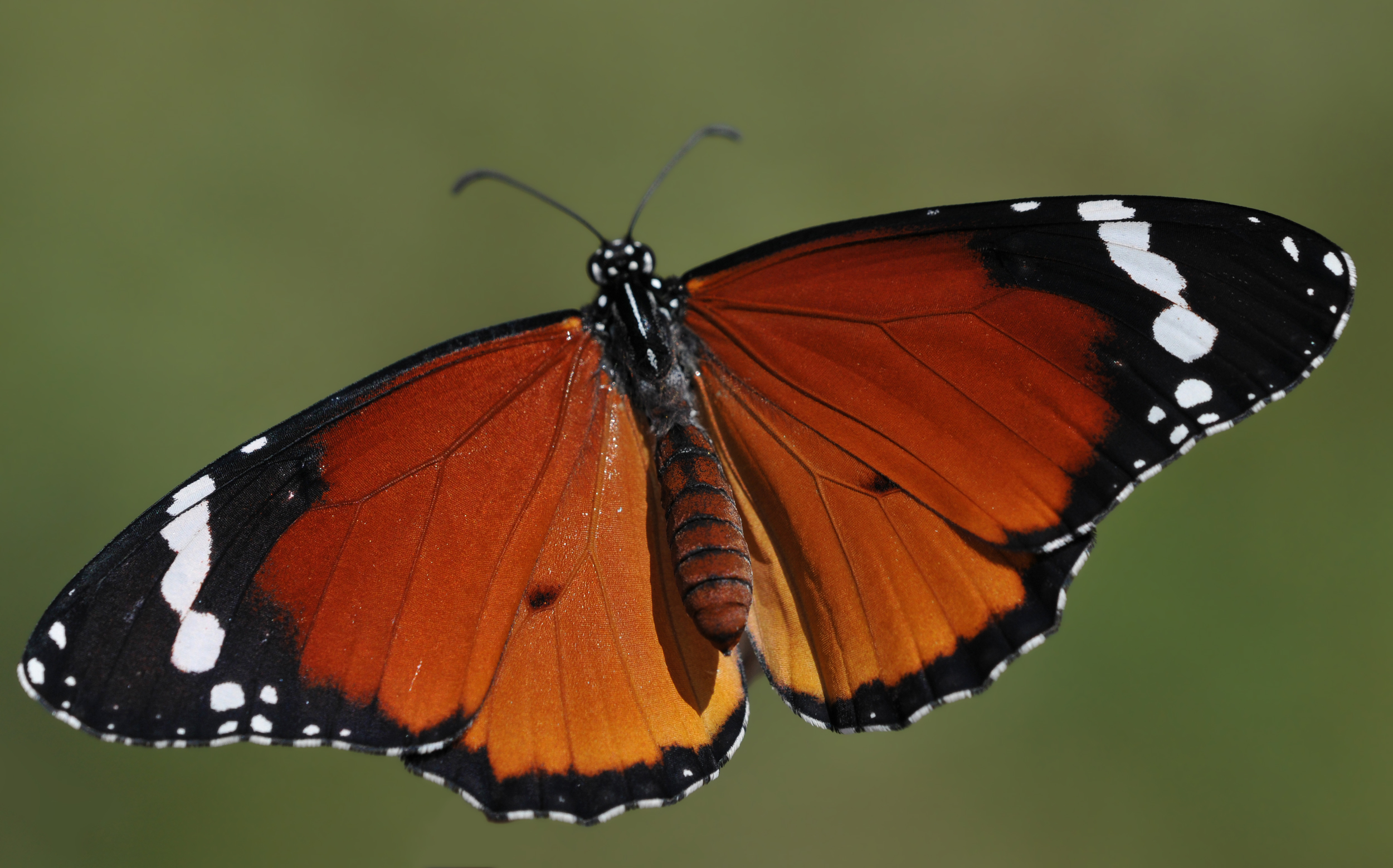 Wing upperside view of a female African Monarch (Danaus chrysippus). Kırmıtlı, Osmaniye - Turkey.